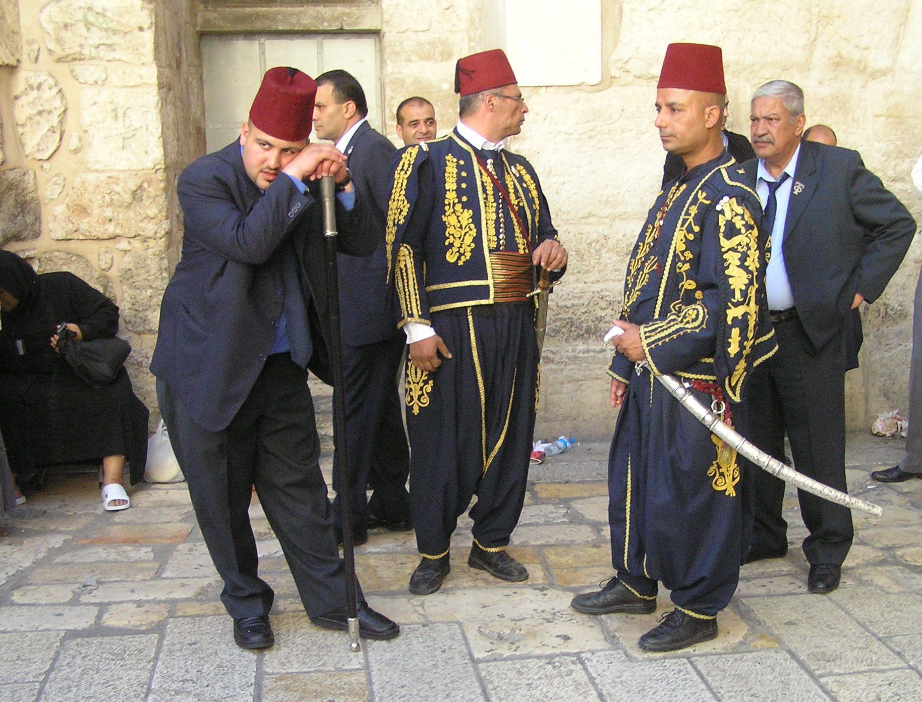 Kawases (Kawas is a ceremonial guard in Jerusalem) at the Holy Sepulchre parvis on Good Friday